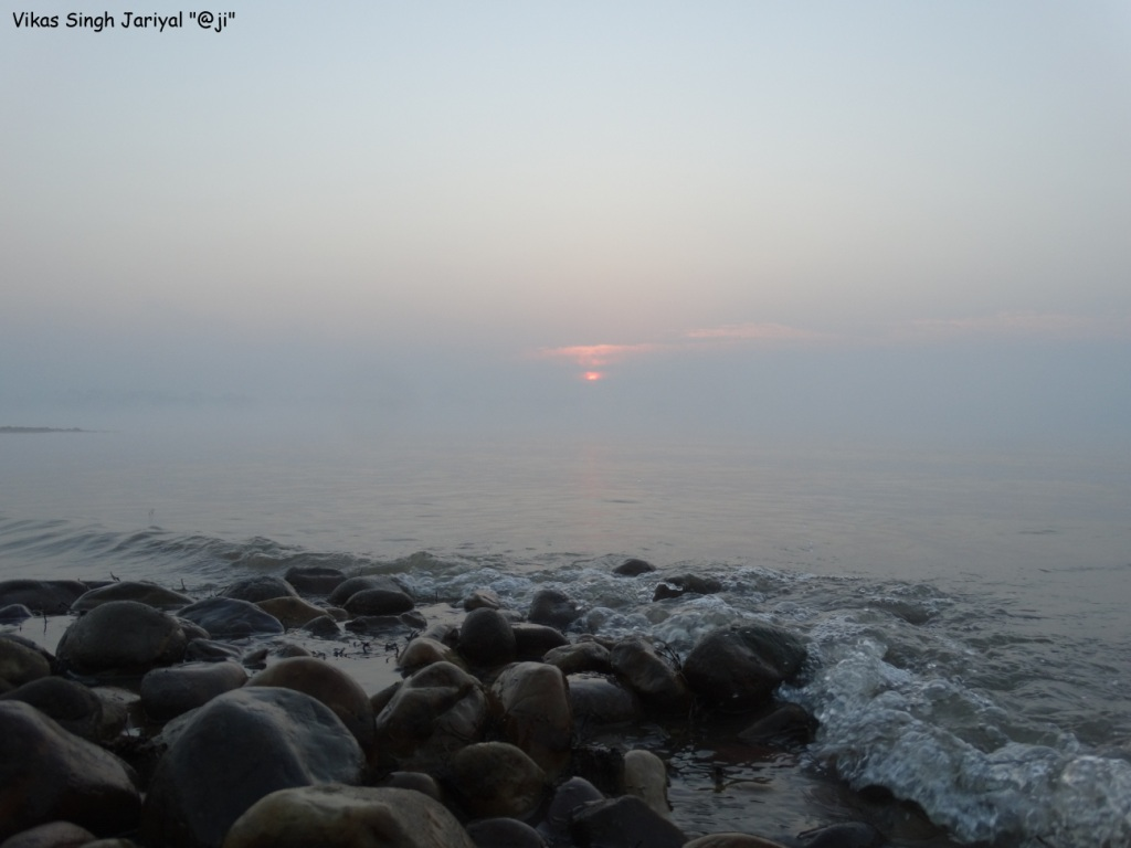 Sun Rise